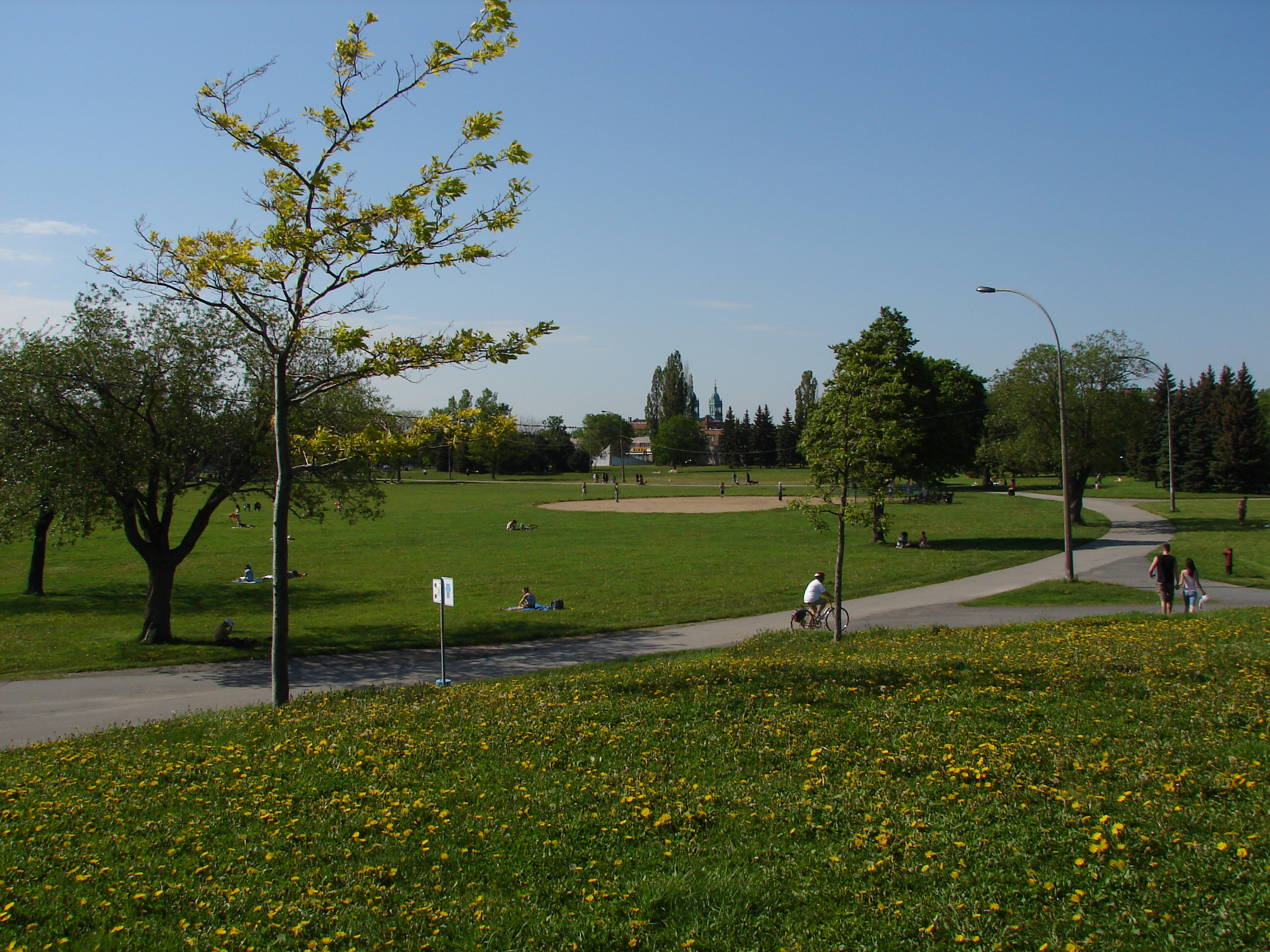 Author: Miguel Tremblay Date: May 29 2006 Source: Photo taken by me on a walk into the Jarry parc. Place: Jarry parc in Montreal, Québec, Canada. Il n'y a pas de piste cyclable dans le parc Jarry donc la photo est erroné --Touchef (talk) 11:48, 7 February 2013 (UTC)